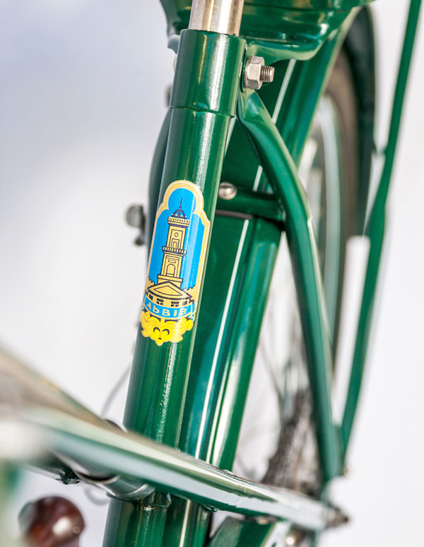 USSR motorized bicycle W-902 (1960) with D-4 engine